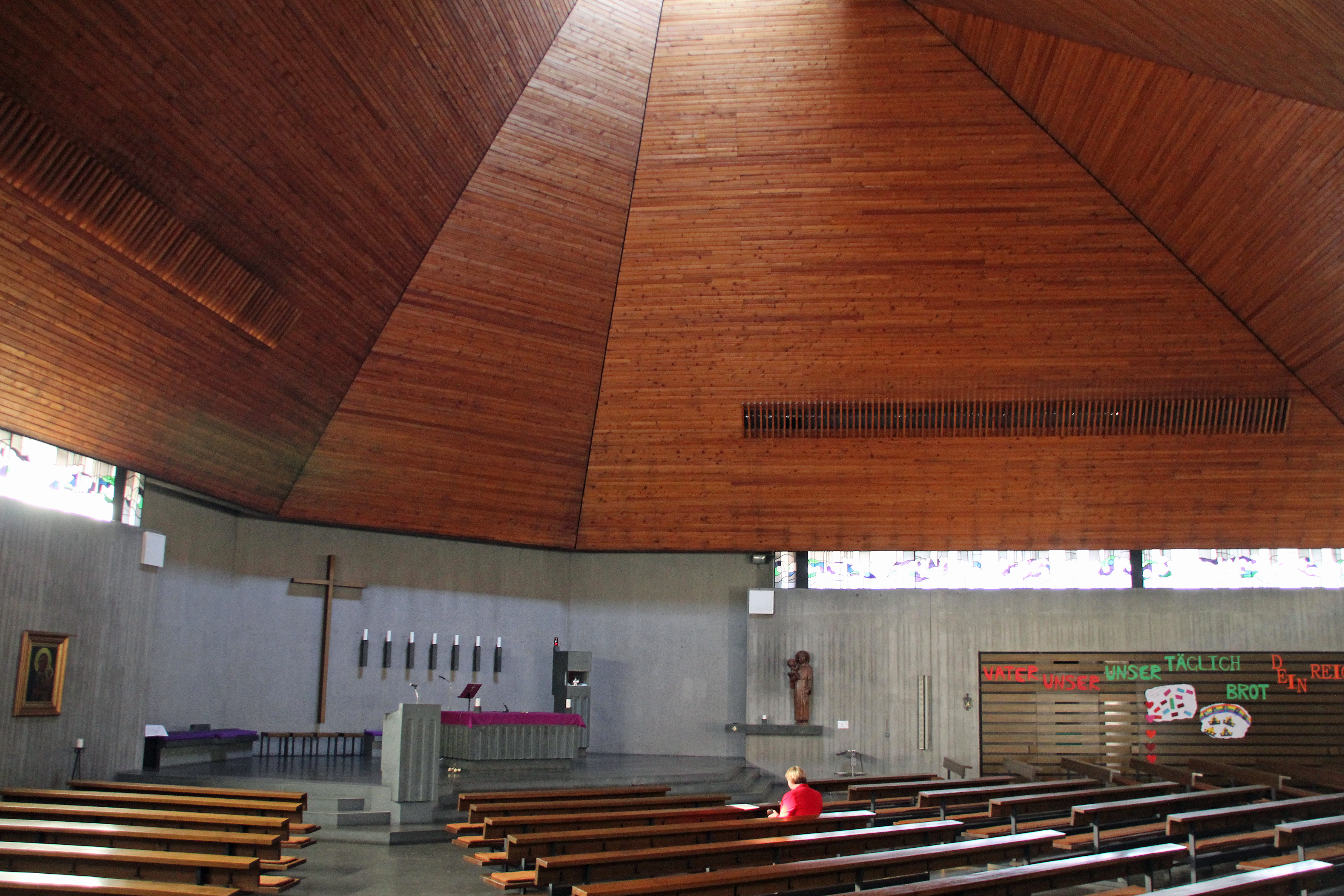 St. Antonius church in Koblenz